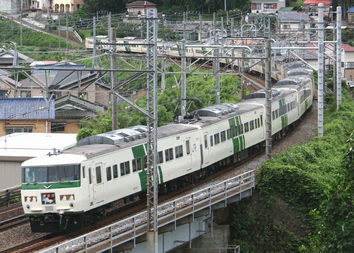 JR East 185 series sets A8 and C1, both repainted into the original livery, on an Odoriko limited express service